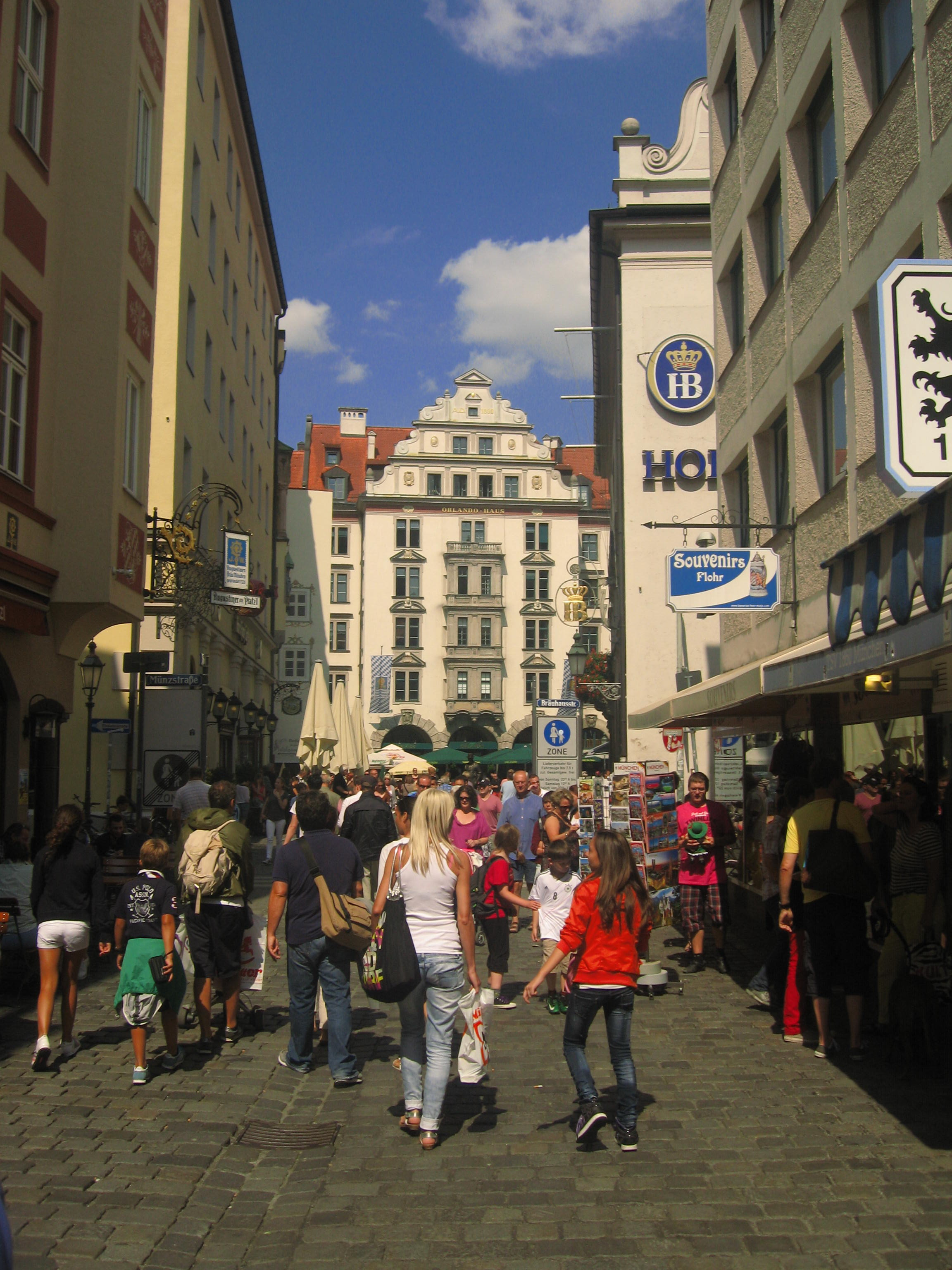 Platzl Munchen